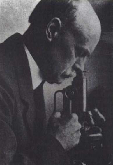 Photograph of Frank Burr Mallory published in 1933 in the American Journal of Pathology